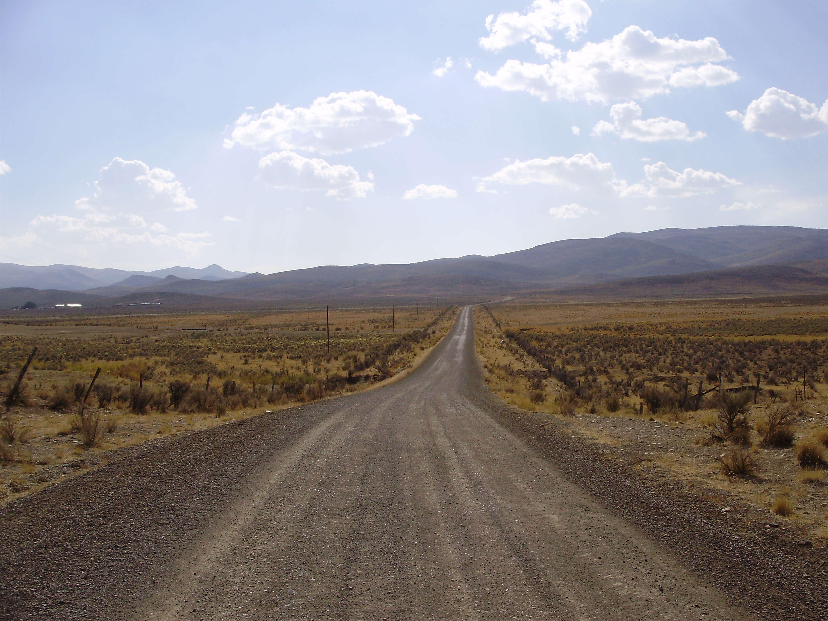 View west along Elko County Route 724 (Midas Road) near Tuscarora, heading towards the Tuscarora Mountains